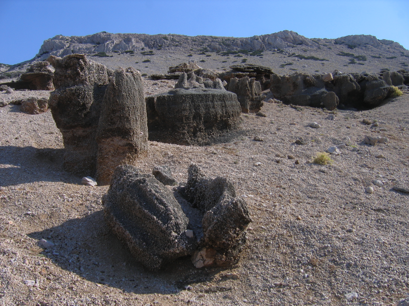 Pag island Croatia